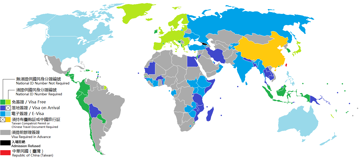 Updated to include entry refusal from Georgia